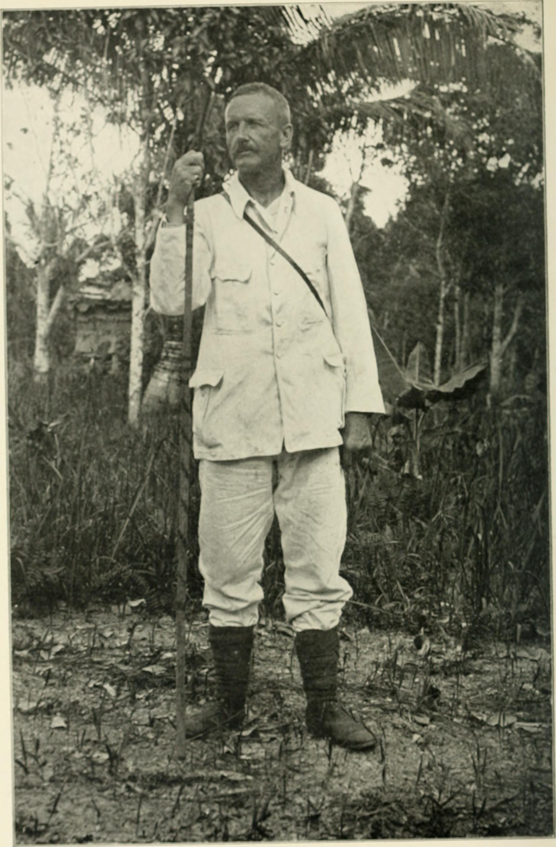 Title: Through Central Borneo; an account of two years' travel in the land of the head-hunters between the years 1913 and 1917 Year: 1920 (1920s) Authors: Lumholtz, Carl, 1851-1922 Subjects: Ethnology -- Borneo Natural history -- Borneo Borneo -- Description and travel Publisher: New York : C. Scribner's sons Text Appearing Before Image: ody of a chief,which is honoured with a double box, remains ten days.According to an otherwise trustworthy Penihing inform-ant, funeral customs vary in the different kampongs ofthe tribe, and generally the box is placed on a crude plat-form a metre above the ground. As for the orchid, I, as well as the Dayaks, who wereshown an illustration of it, searched in vain for three days.There is no doubt that I was at the place which had beendescribed to me, but the plant must be extremely rareand probably was discovered accidentally near thewater, as the native collector said, perhaps when he wasresting. li4G91 UC SOUTHERN RFGIONAL LIBRARr fACILITY AA 000 900 822 8 CENTRAL UNIVERSITY LIBRARYUniversity of California, San Diego DATE DUE FEB 0 9 1978 Ttlitl 7 7P ^r^. 2 7 1978 MAY 04 1978 SiP27 1985 SEP 18 iyt CI 39 UCSD Libr. iillll Text Appearing After Image: « AKI. J-lMHol,!/. IN IMK HI 1.1 NV U H lutKSi THROUGHCENTRAL BORNEO AN ACCOUNT OF TWO YEARS TRAVEL IN THE LAND OF THE HEAD-HUNTERS BETWEEN THE YEARS 1913 AND 1917 ■ ^ i\^ BY ^^ CARL LUMHOLTZ IfEMBER OF THE SOaETY OF SCIENCES OF CHRISTIANIA, NORWAY GOLD MEDALLIST OF THE NORWEGIAN GEOGRAPHICAL SOCTETY ASSOCIE ETRANGER DE LA SOCIETE DE LANTHROPOLOGIE DE PARIS, ETC. WITH ILLUSTRATIONS FROM PHOTOGRAPHS BY THE AUTHOR AND WITH MAP VOLUME I NEW YORK CHARLES SCRIBNERS SONS 1920 COPYKICBT, IMO. BY CHARLF.; ^CRIBNERS SONSPublubed Sepcembcr, IMUthroughcentralbo01lumh